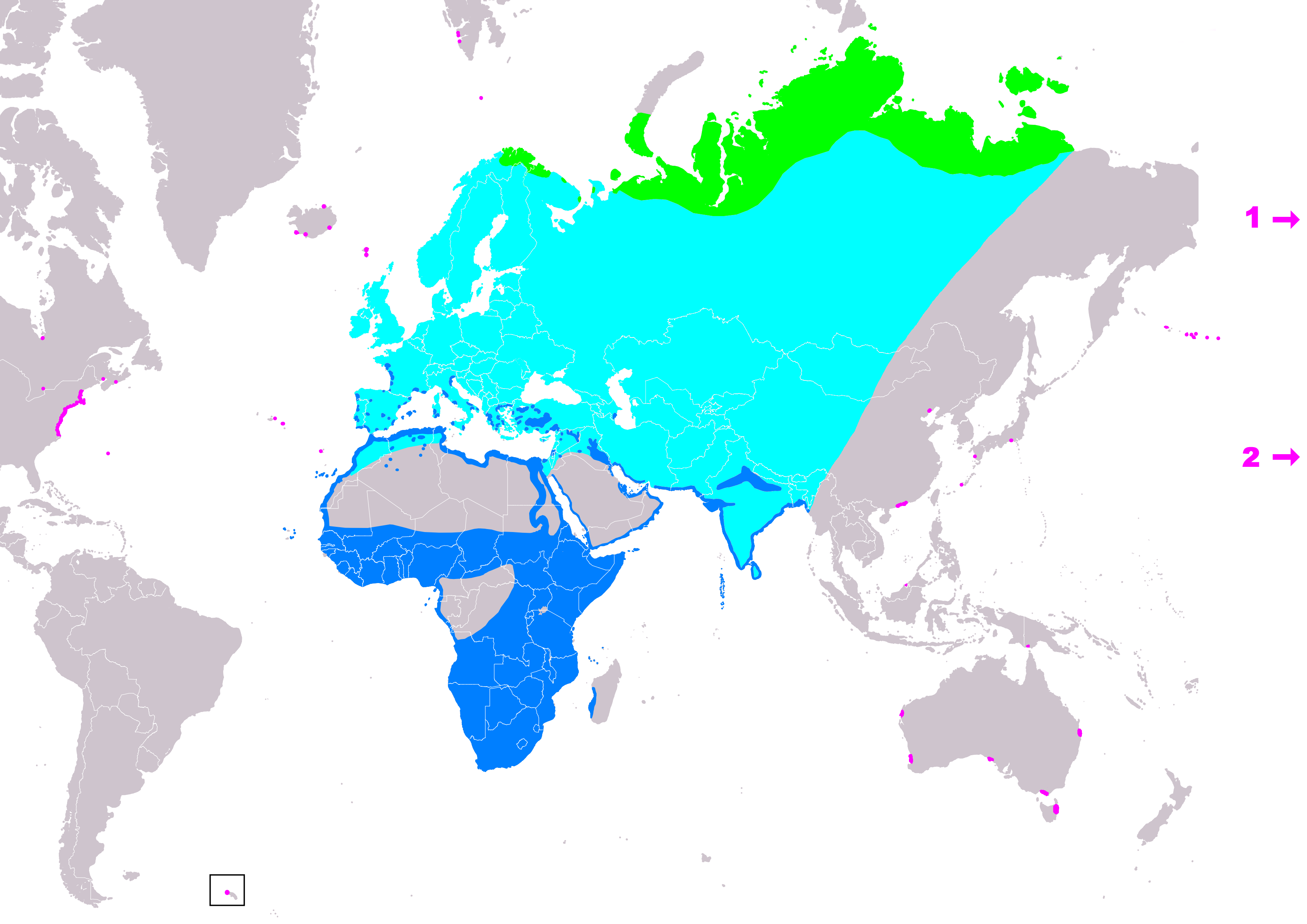 Distribution map of little stint (Calidris minuta) according to IUCN version 2019-2 ; key: Legend: Extant, breeding (#00FF00), Extant, passage (#00FFFF), Extant, non-breeding (#007FFF), Extant & Vagrant (seasonality uncertain) (#FF00FF)